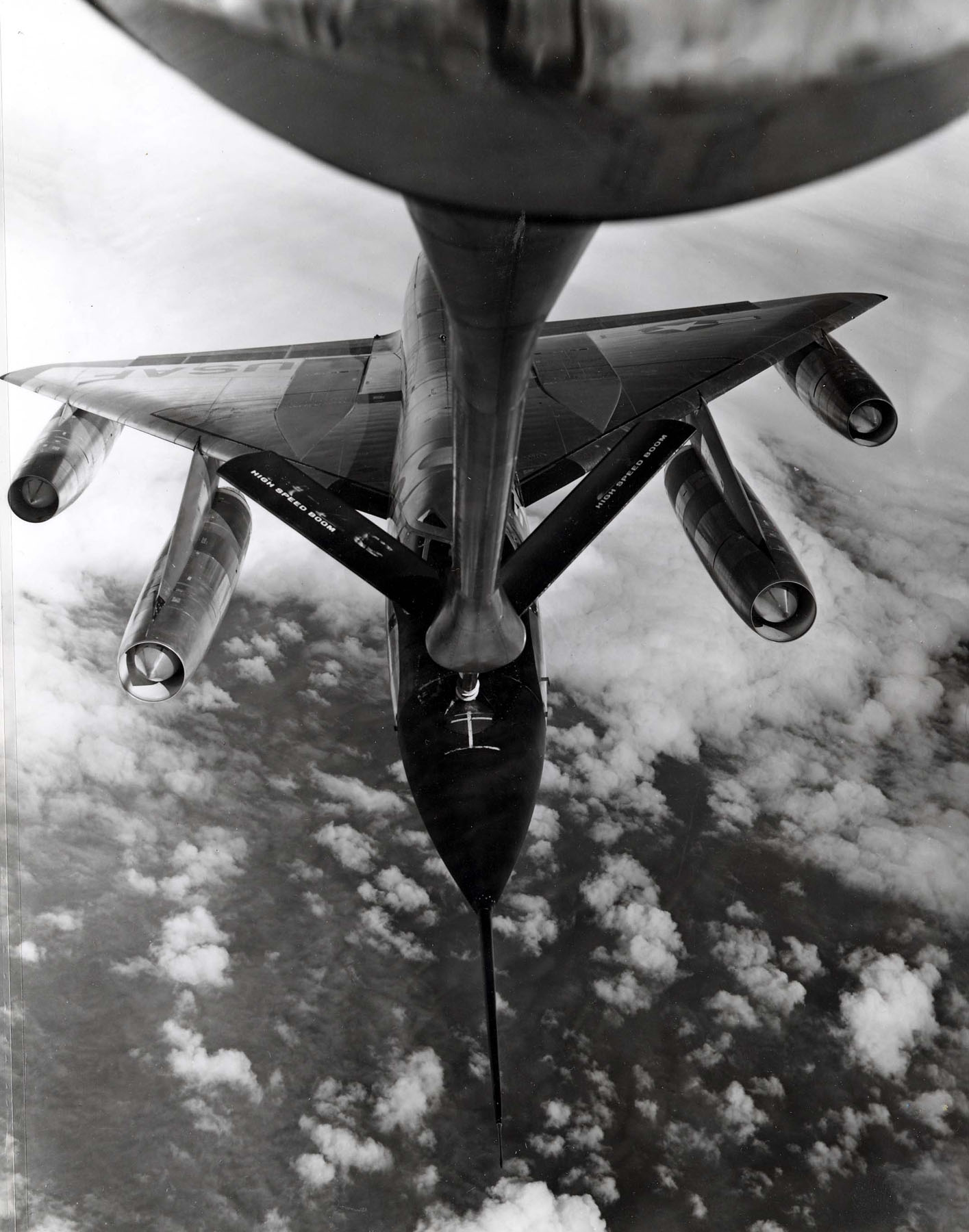 Convair B-58A refueled during Operation Heat Rise